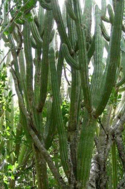 Pilosocereus robinii USFWS photo